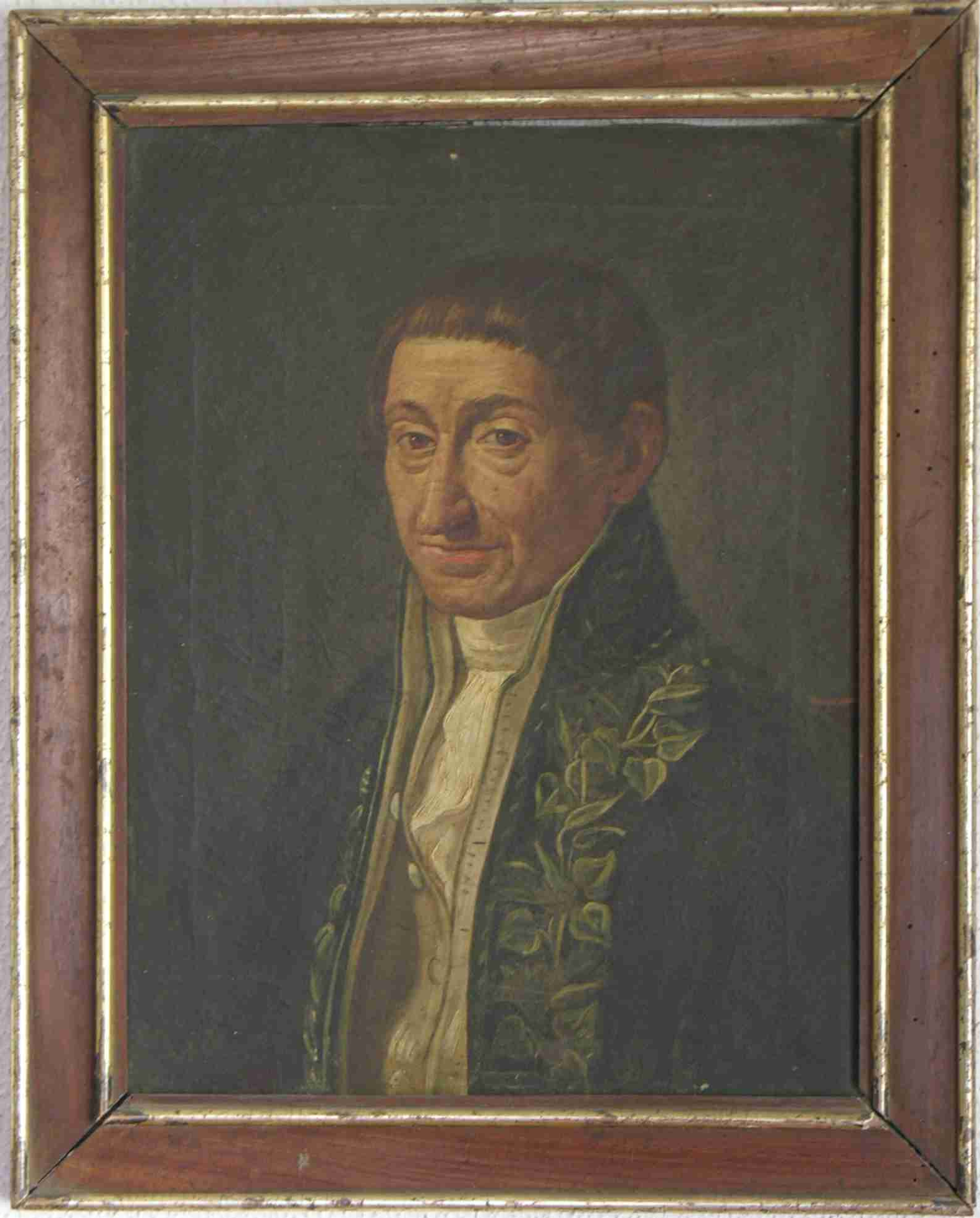 Fedele Fenaroli (1730–1818), italian composer